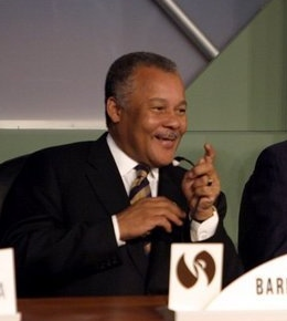 President George W. Bush talks with the Prime Minister Owen Arthur of Barbados during the inaugural ceremony of the Special Summit of the Americas in Monterrey